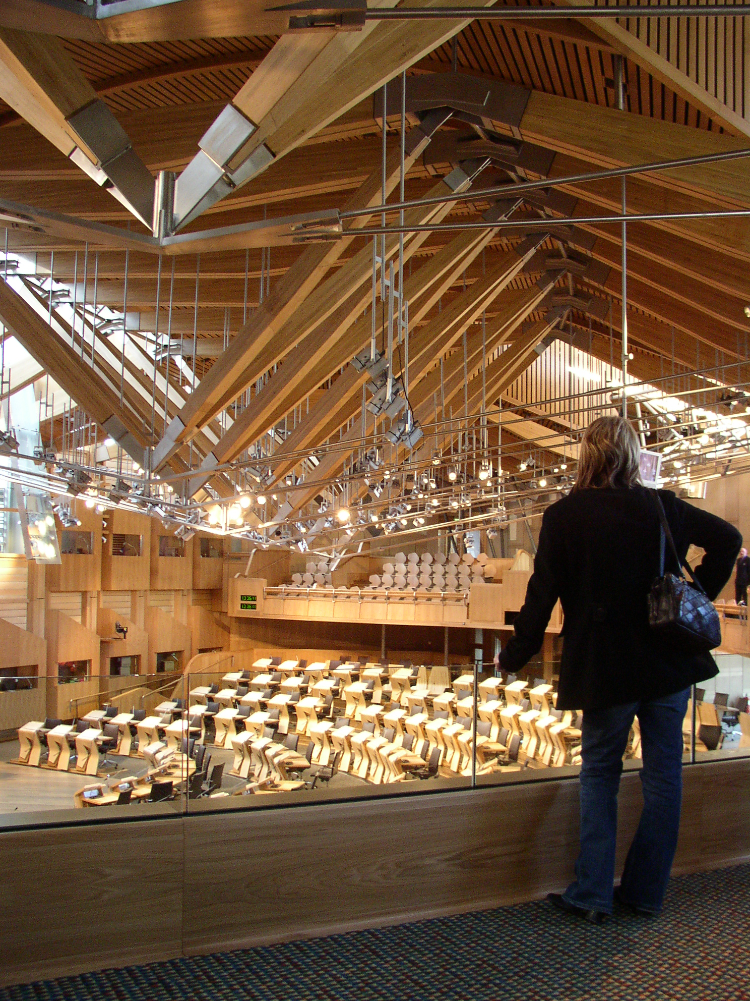 Parliament debating chamber, Edinburgh, Scotland.